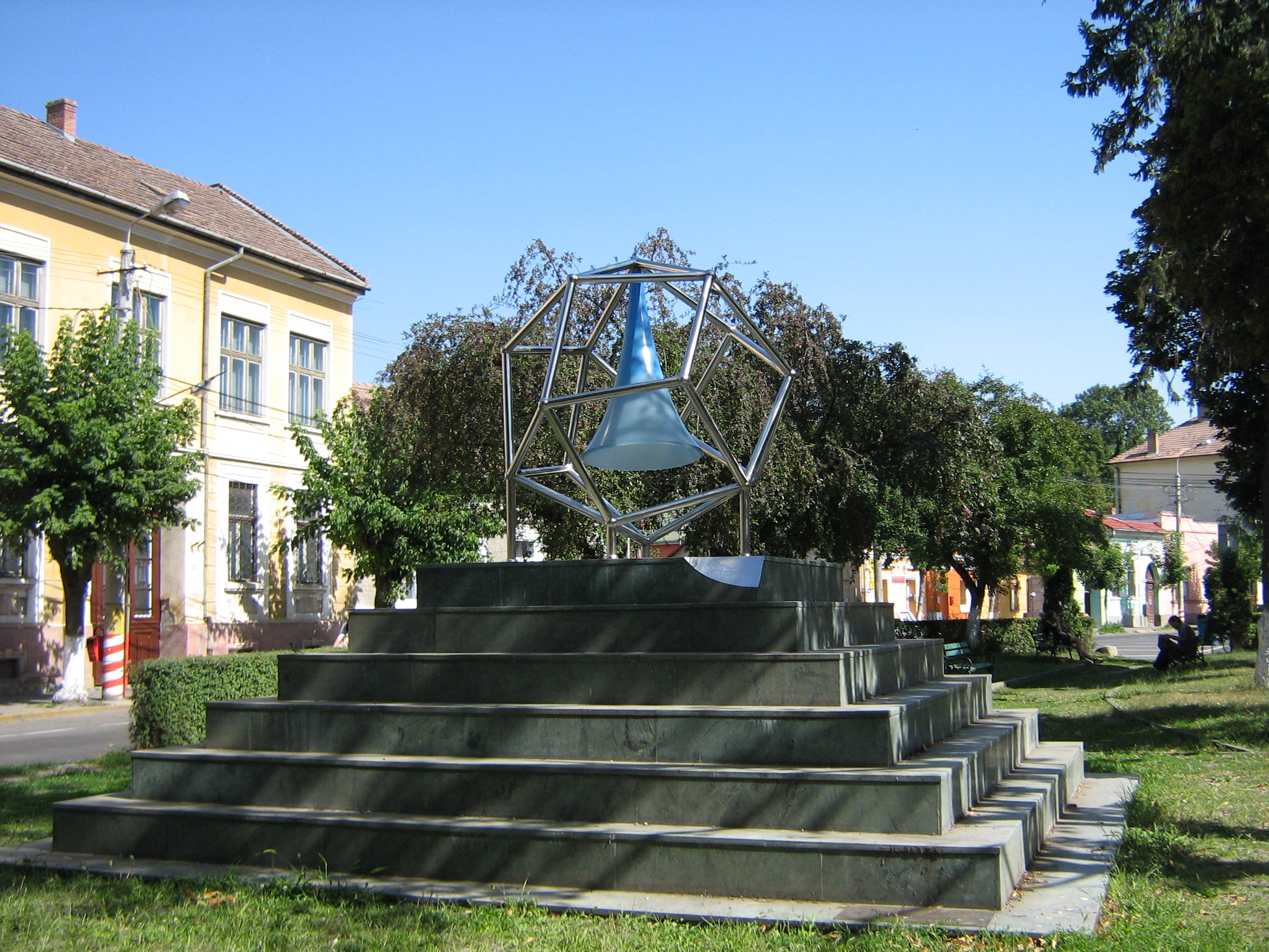 The Pseudosphaera statue in Targu Mures